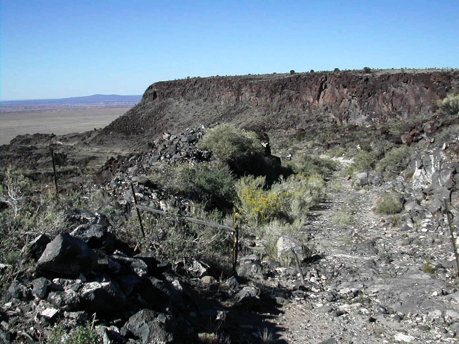 Route 66 and National Old Trails Road Historic District at La Bajada, Approximately 0.5 miles northeast of the northern terminus of State Road 16 La Bajada